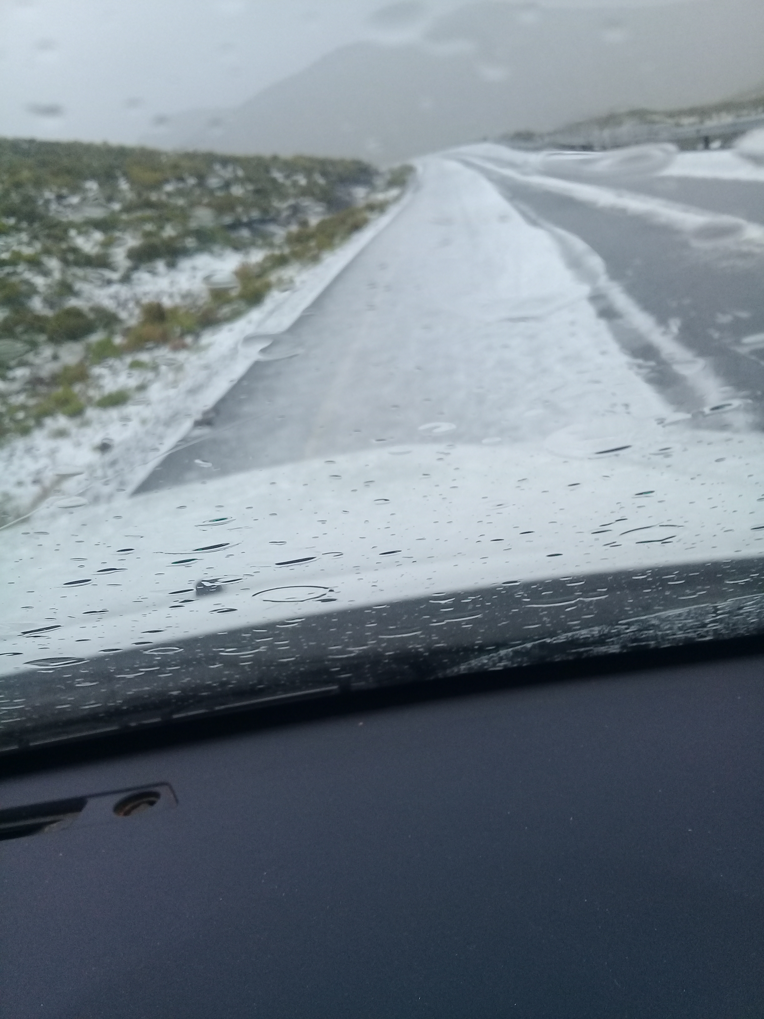 This is a picture of a rain filled day through a car's windscreen This is an image with the theme "Play" from: Lesotho